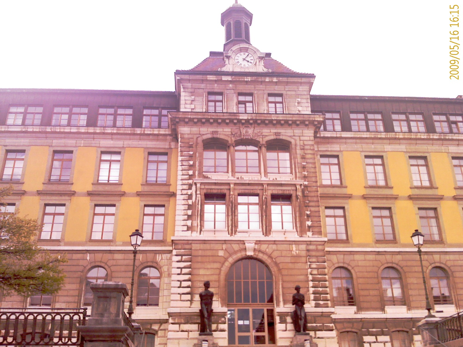 City Library at La Chaux-de-Fonds, site of CDELI and Swiss Esperanto-Society, canton of Neuchâtel, SwitzerlandEsperanto: Urba biblioteko en La Chaux-de-Fonds, sidejo de CDELI kaj Svisa Esperanto-Societo, Kantono Neŭŝatelo, Svislando